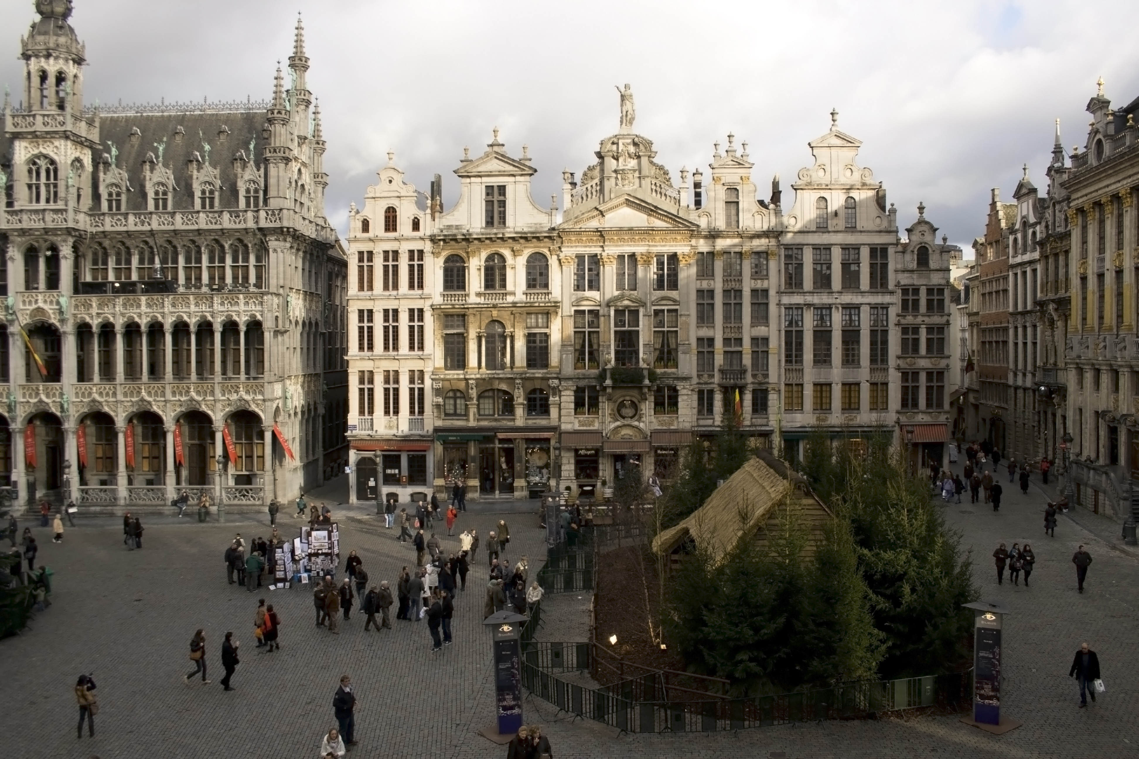 View from the Swan house, Grand-Place, Brussels